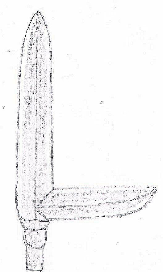 Katagama Yari 3